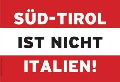 “South Tyrol is not Italy!”